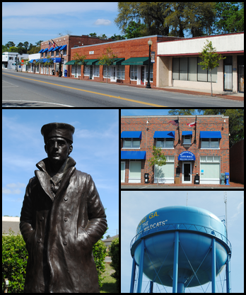 Photos I took around Kingsland, Georgia